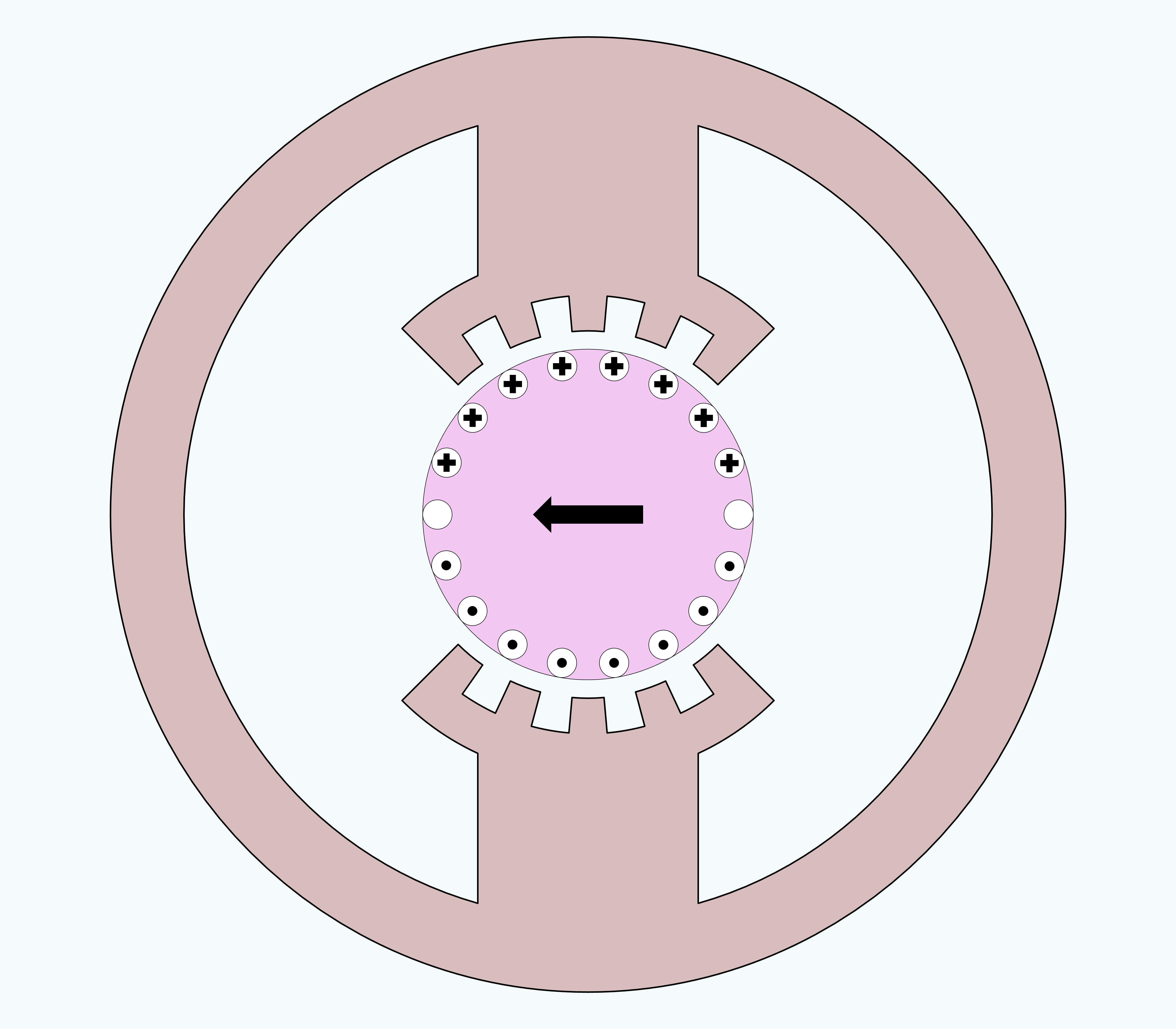 Cross section of DC motor with compensation windings showing magnetic flux due to armature windings.